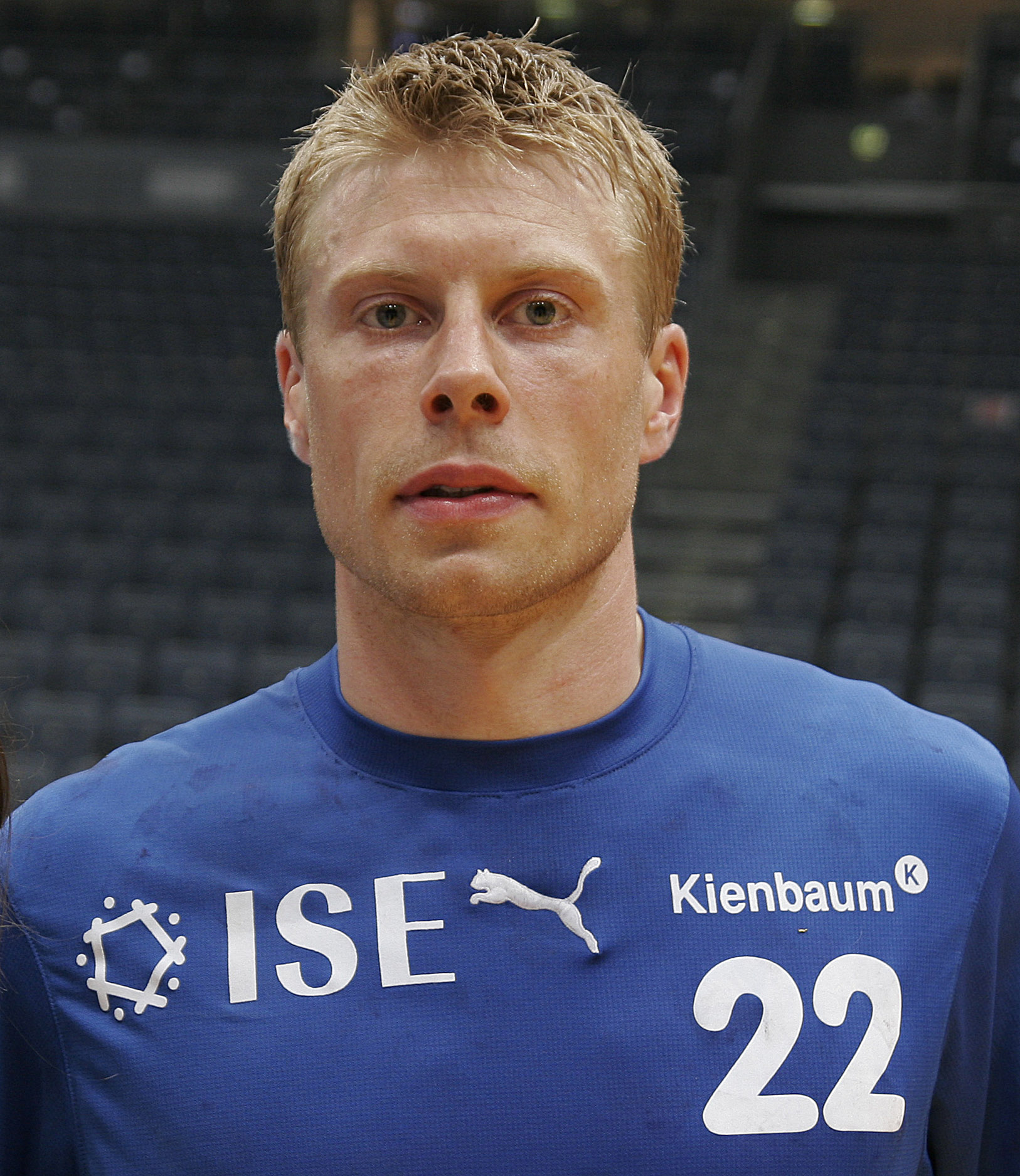 Guðjón Valur Sigurðsson, the Handballplayer from Iceland, after the game VfL Gummersbach - HSG Nordhorn